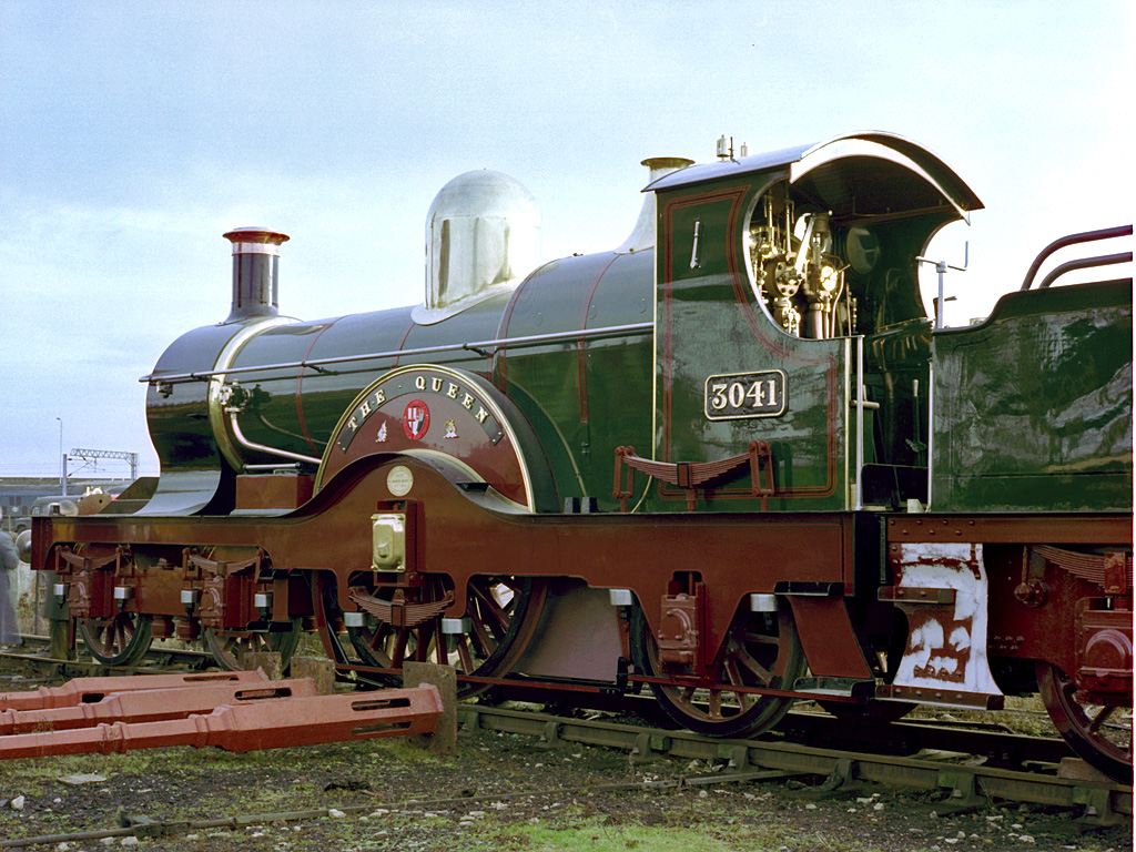 Steamtown Railway Museum built replica of Great Western Railway Dean 4-2-2 19' x 24' "Dean Single" locomotive number 3041 THE QUEEN at Steamtown Railway Museum at Carnforth. Tuesday 28th December 1982